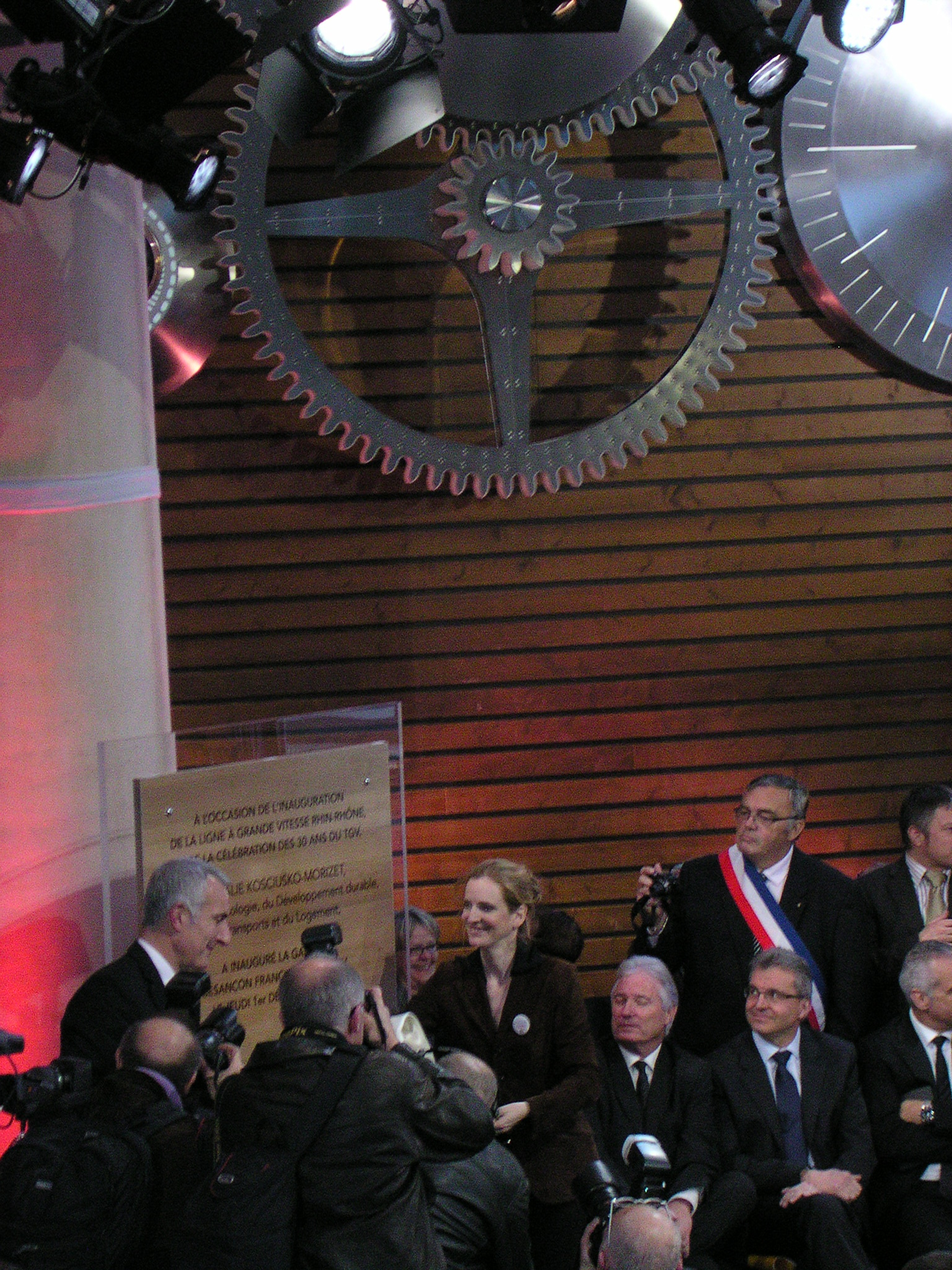 Minister for Ecology, Sustainable Development, Transport and Housing of France, Nathalie Kosciusko-Morizet, and president of national state-owned railway company SNCF, Guillaume Pepy, inaugurating the Besançon Franche-Comté TGV railway station, unveiling the inaugural plaque under the station's clock working with a TGV rotor.